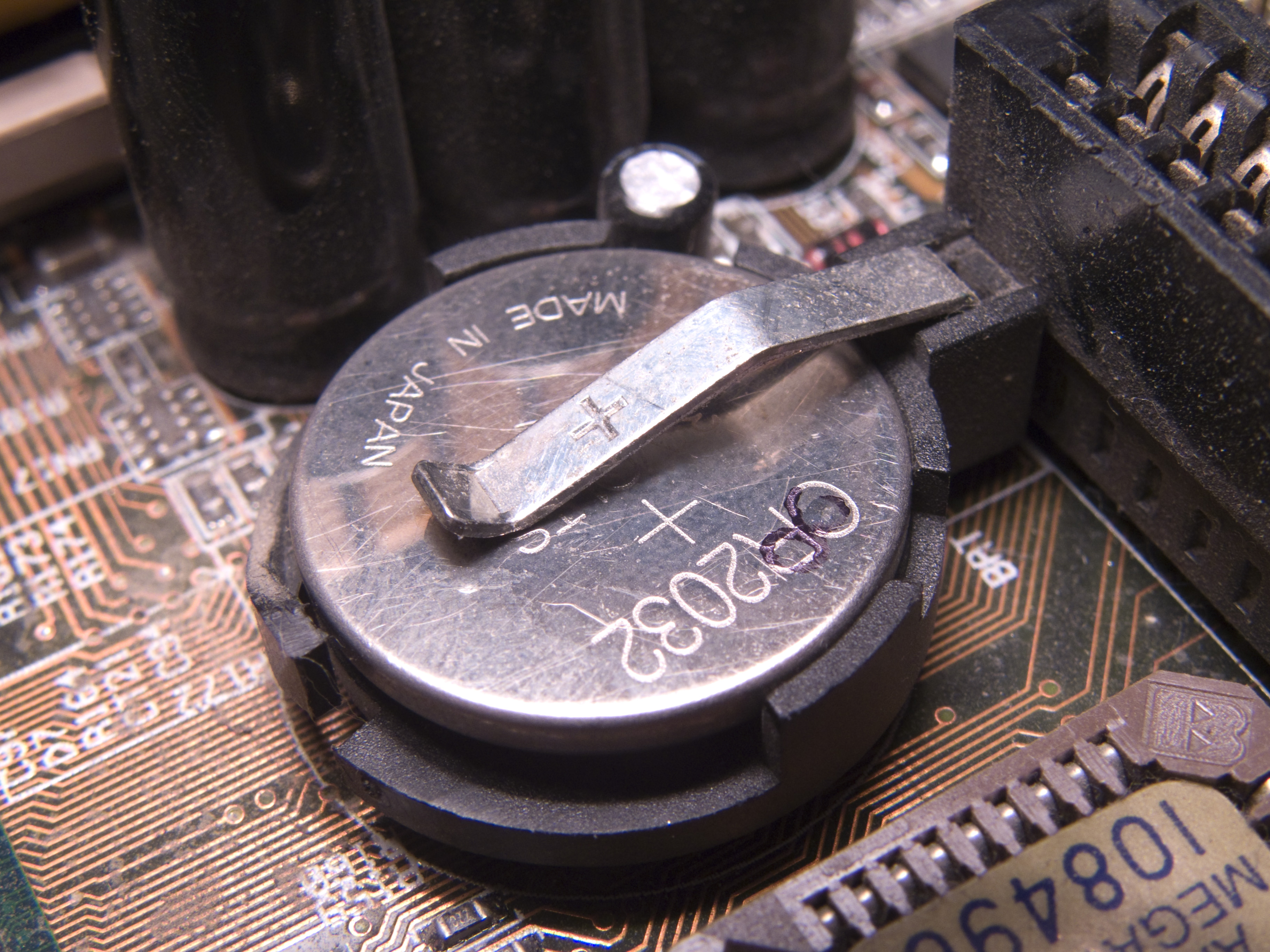 CR2032 battery in computer mainboard. Česky: CR2032 baterie ve slotu v základní desce počítače.